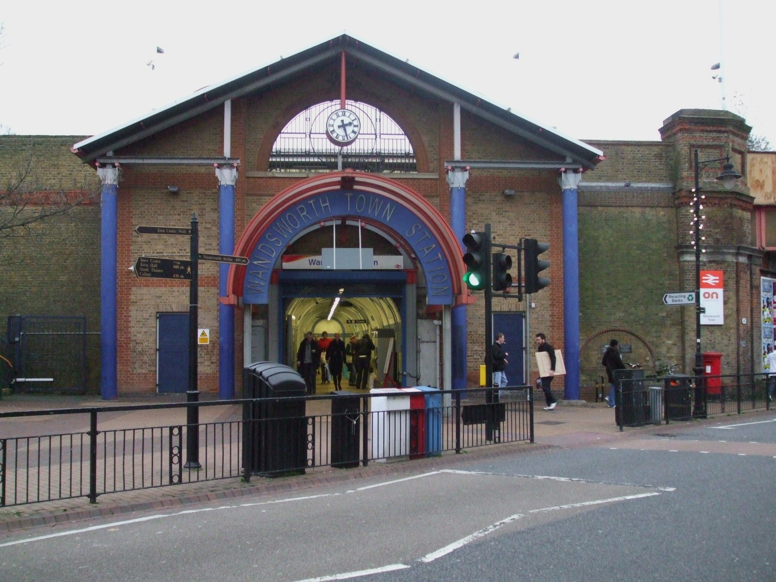 Wandsworth Town station entrance